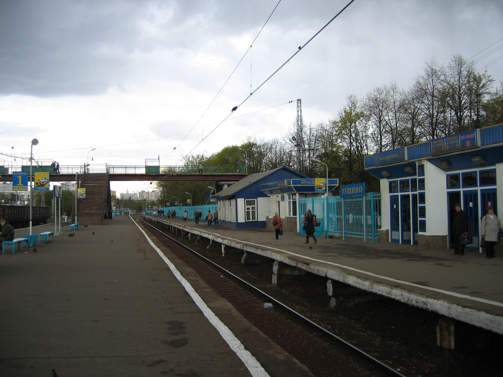 Tushino station in Moscow